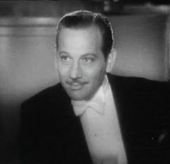 Cropped screenshot of Melvyn Douglas from the film Ninotchka